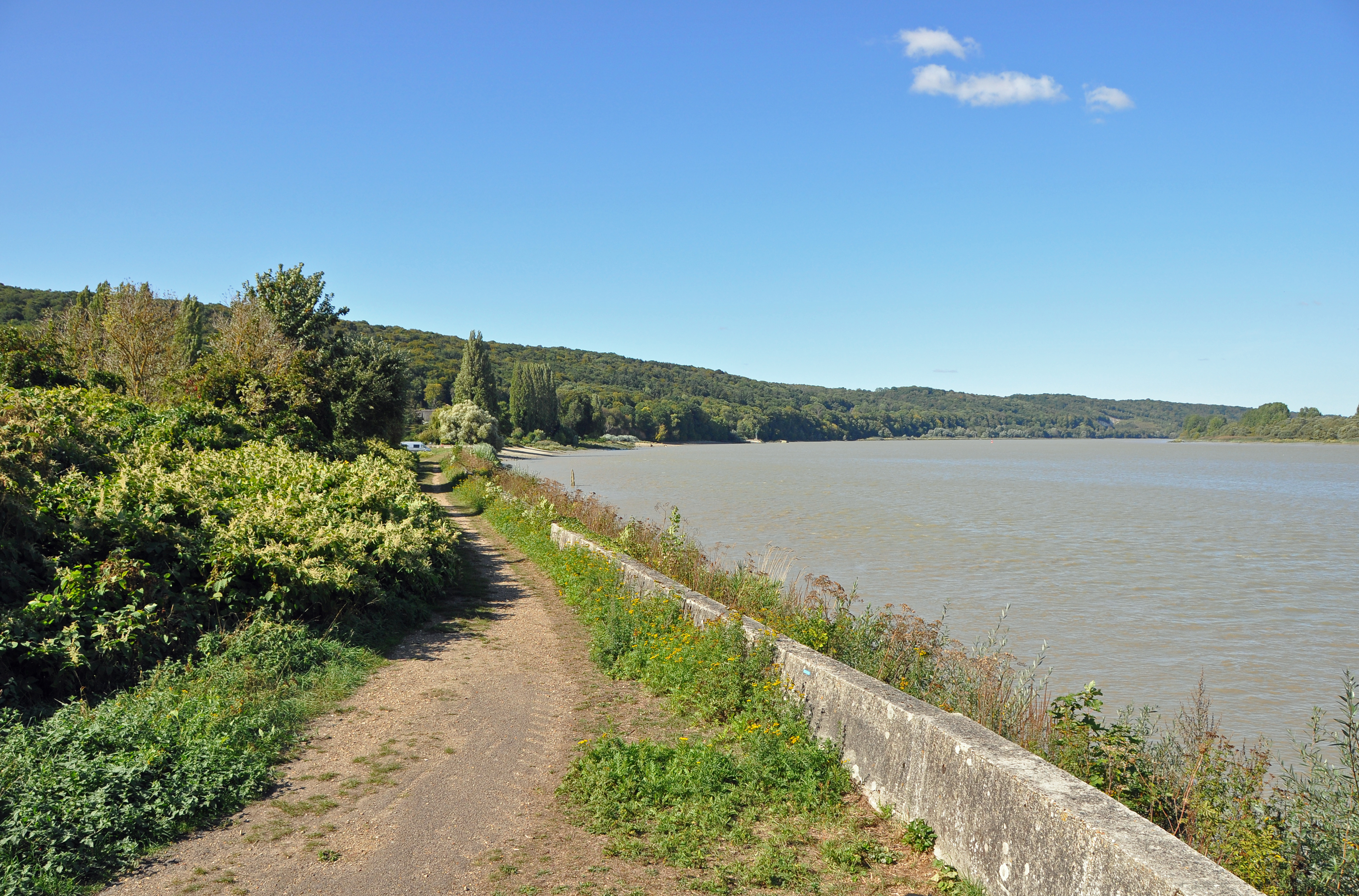 Vieux-Port (Eure department, France): Seine embankment